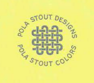 Logo of Pola Stout Designs Pola Stout Colors